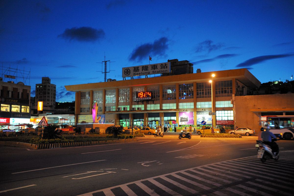 The night scene of Keelung Station, Taiwan Railway Administration.